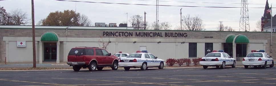 Taken by Kurt Weber (User:Kmweber) on November 5, 2006